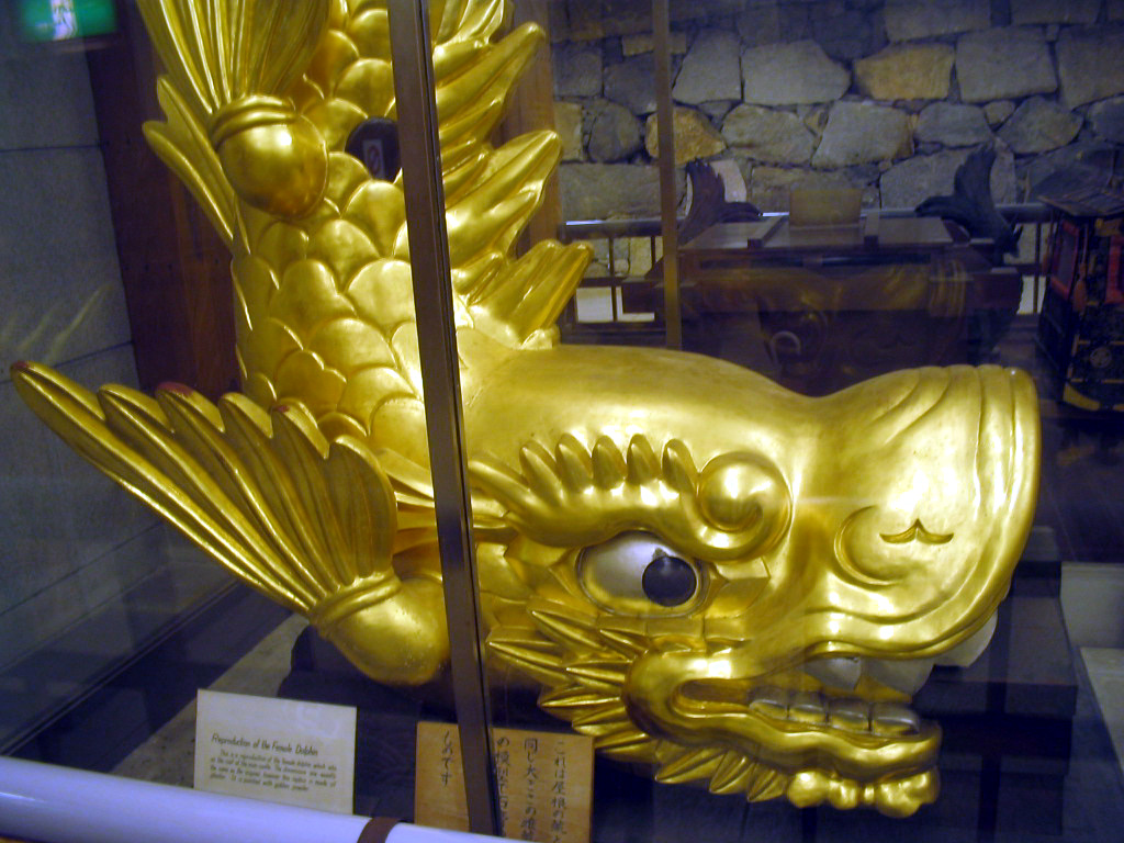 Shachihoko (a sea monster), Gouden dolfijn , Nagoya castle